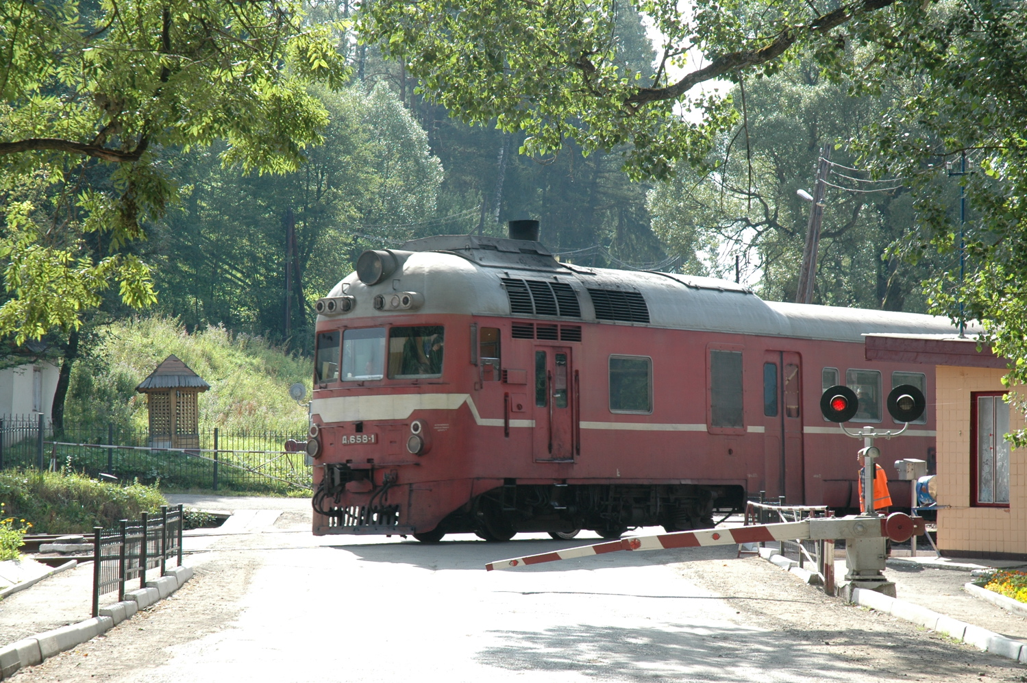 Ukrainian D1 diesel multiple unit in Vorokhta (Ivano-Frankivsk oblast, Ukraine)